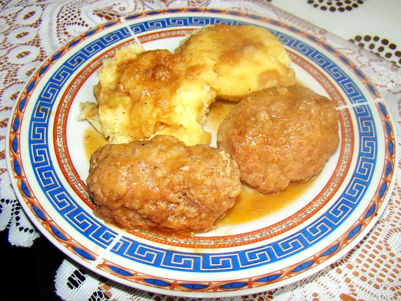 Polish meatballs "Klopsy"